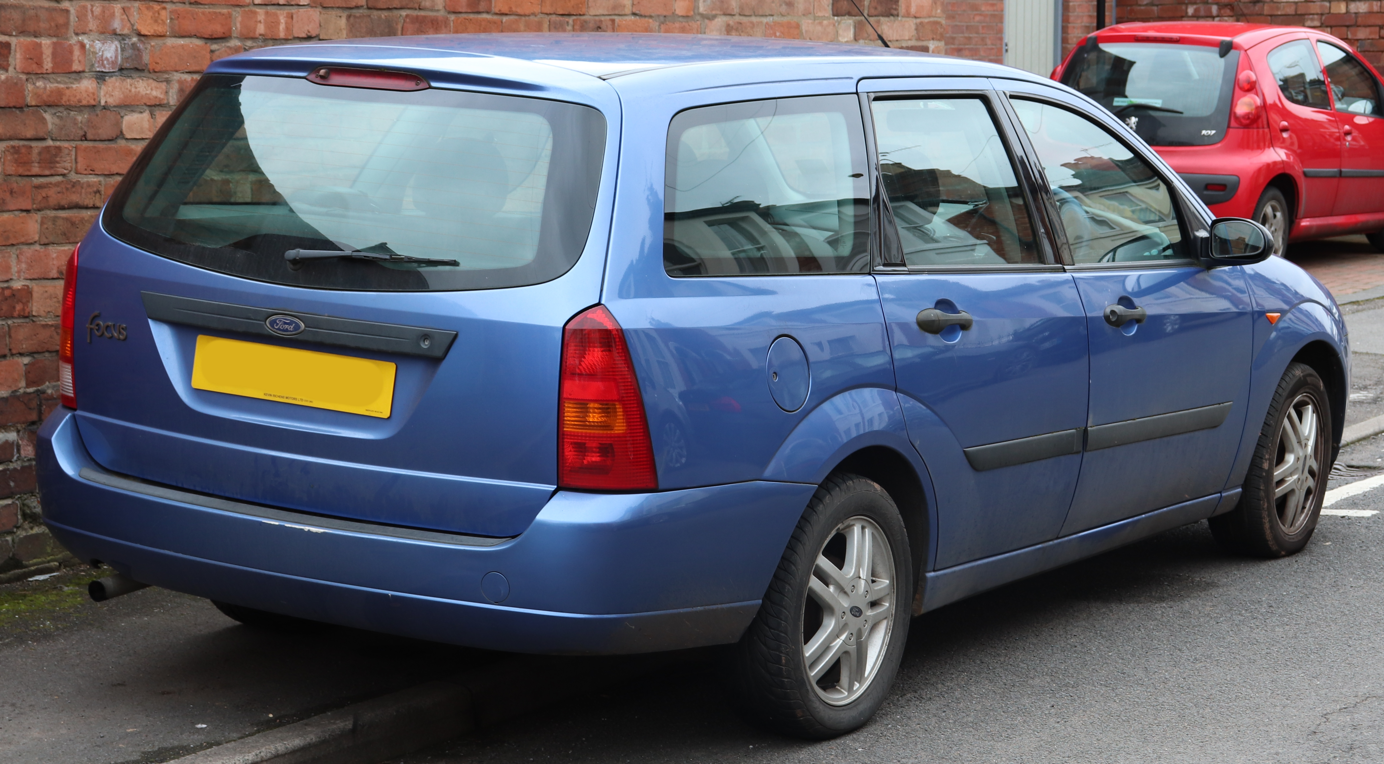 1999 Ford Focus Zetec Estate 1.6 Rear Taken in Leamington Spa